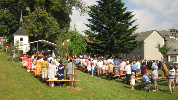 Mše v rámci sjezdu rodáků v Polomí